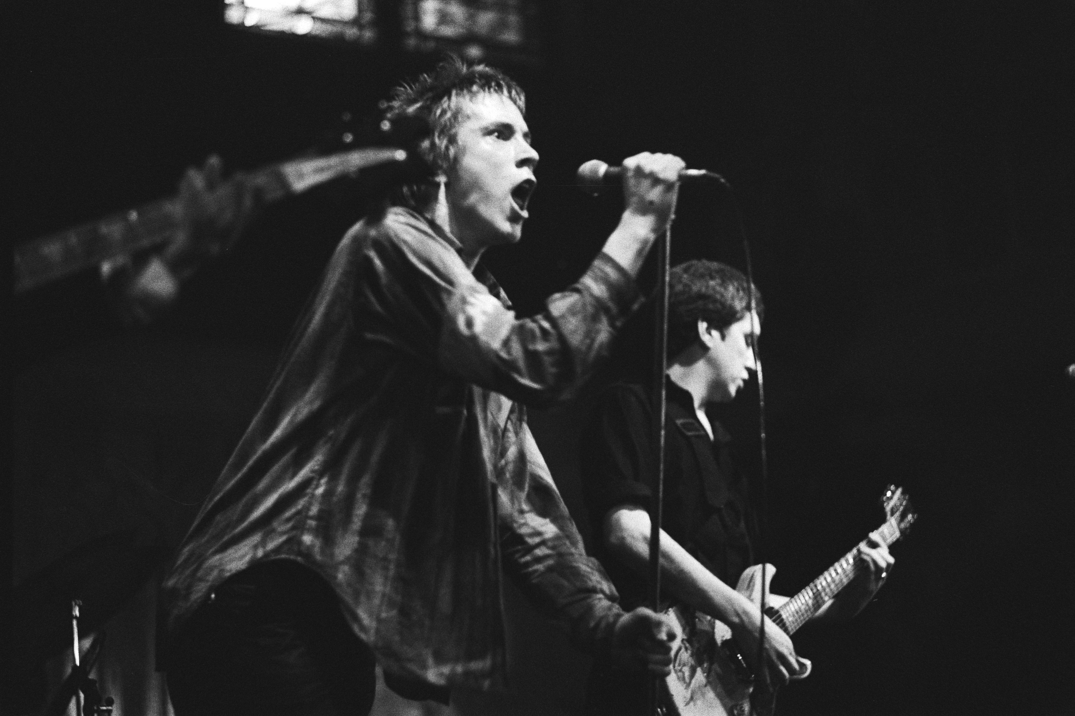 Sex Pistols perform in Paradiso, Amsterdam (Jan. 1977).